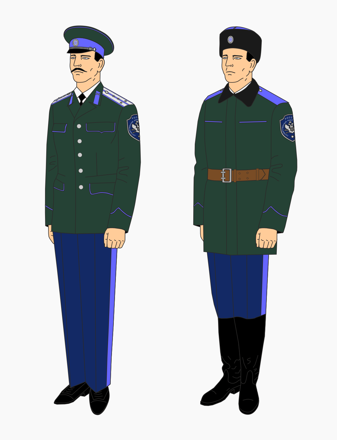 Оренбургское казачье войско (повседневная форма казаков)